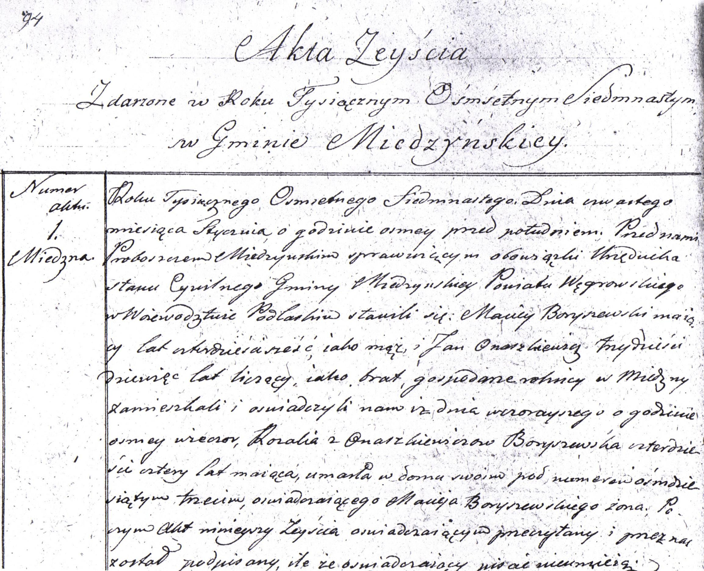 Photocopy of the 19th-century parish record of death